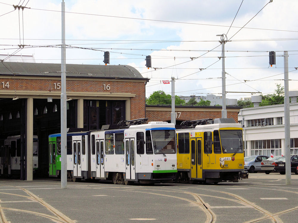 Tatra KT4 122 and 141, Pogodno tram depot, Szczecin, 2016